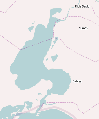 Map of "Stagno di Cabras" taken from OpenStreetMap This map may be incomplete, and may contain errors. Don't rely solely on it for navigation.